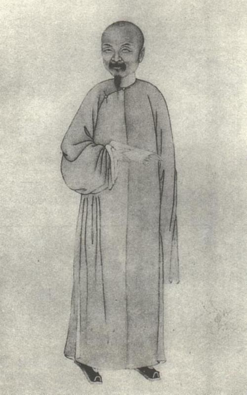 Zha Shenxing, politician of the Qing Dynasty.